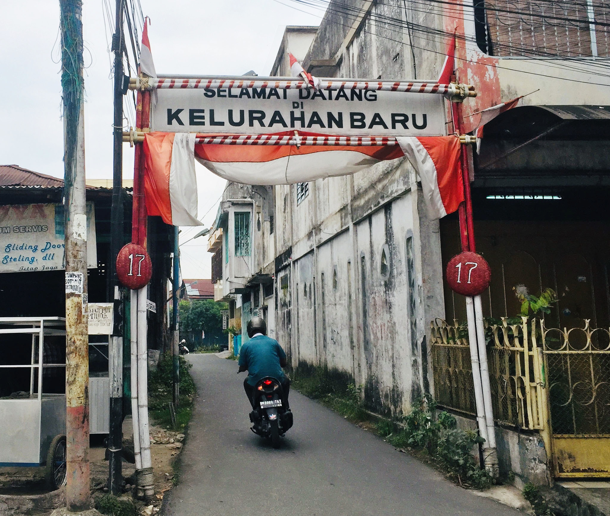 welcome gate to Baru, Siantar Utara, Pematangsiantar